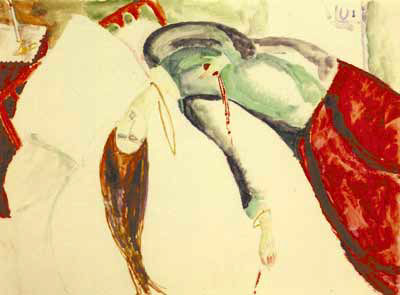 Jeanne Hébuterne painting - La suicida